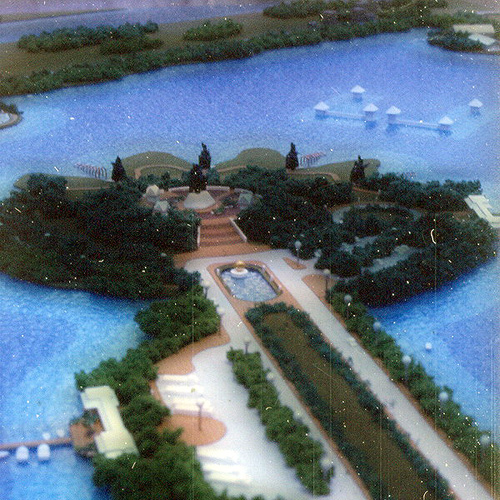 Suriyothai Queen Memorial Park, Ayutthaya, Thailand - Model